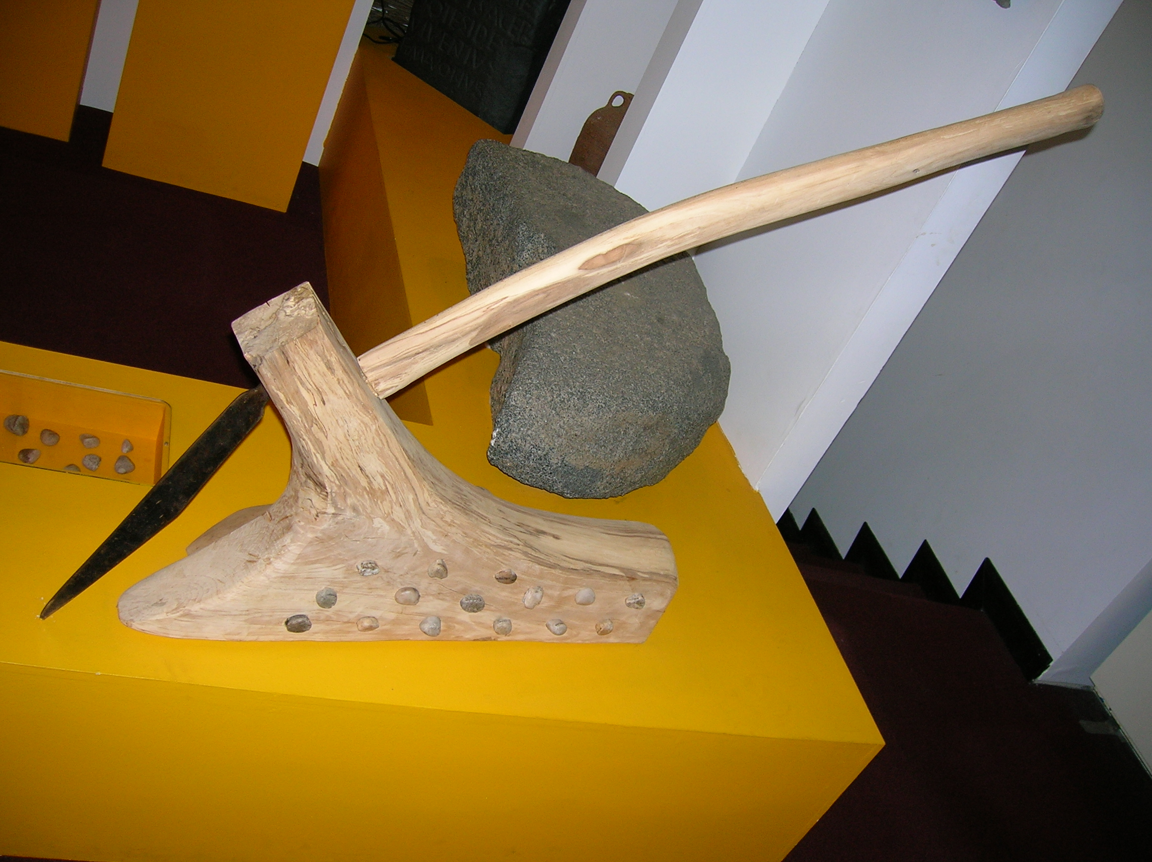 A mould-board plough at the Whithorn Trust Museum, The Machars, Dumfries and Galloway, Scotland